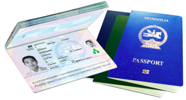 Biometric passport, Mongolia